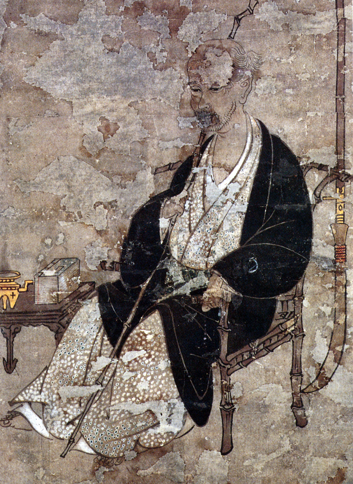 Iwasa Matabei Self Portrait(important cultural property of Japan),Hanging scroll,MOA Museam of Art